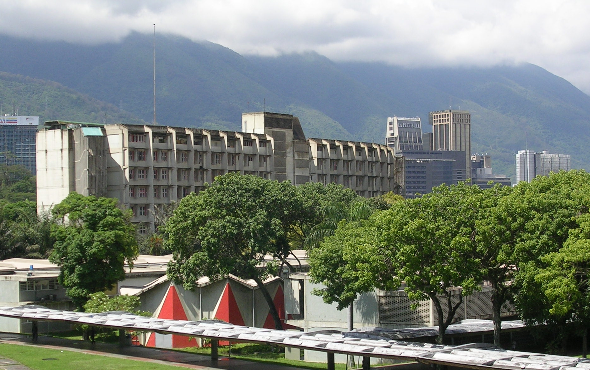 Buildings of the School of Humanities, Social Sciences and Economy